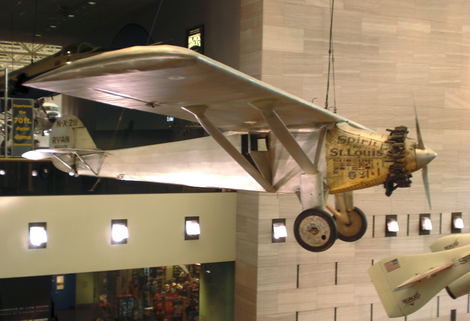 National Air and Space Museum, Spirit of St. Louis, Washington D.C., USA